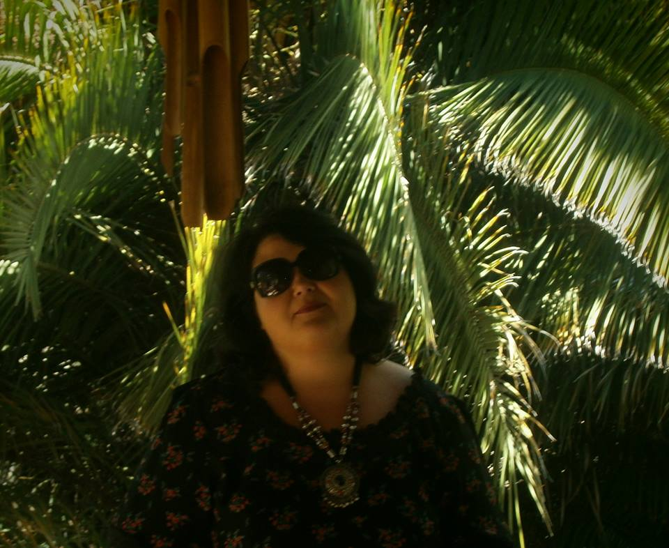 Author